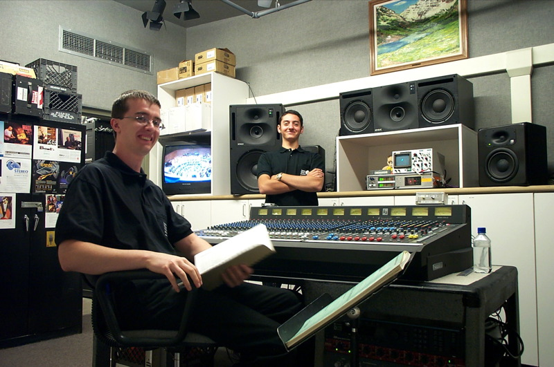 Aspen Music Festival recording studio. Soundcraft K2 board Gigantic Genelec center monitor for surround sound mixing